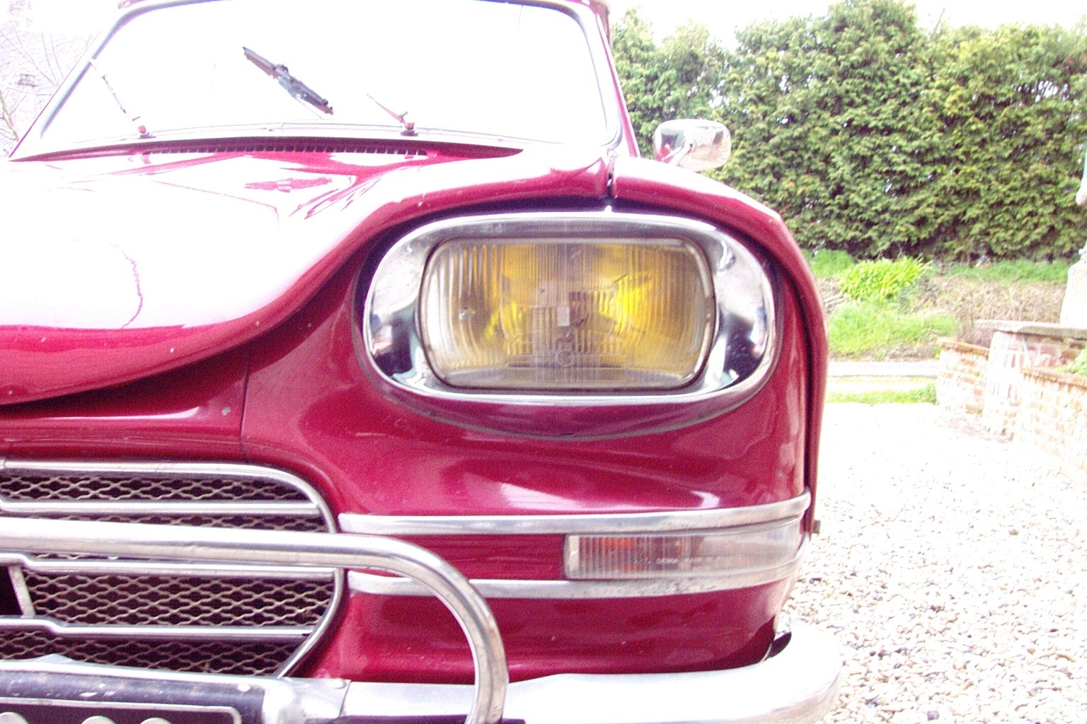 view of Citroën Ami6 Headlight. The first car with headlights which are not circular (1961)